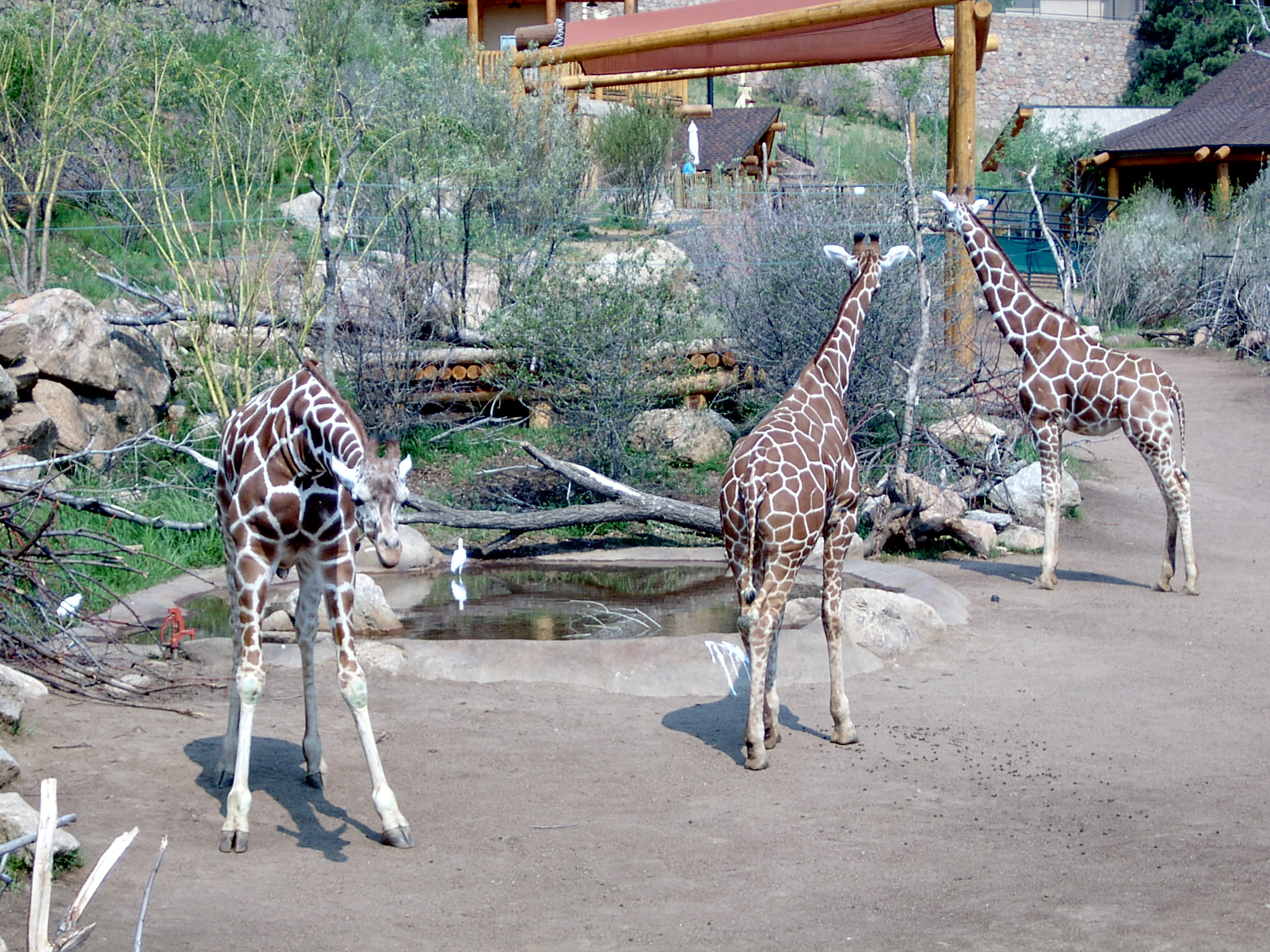 Reticulated giraffes at the Cheyenne Mountain Zoo's African Rift Valley exhibit.